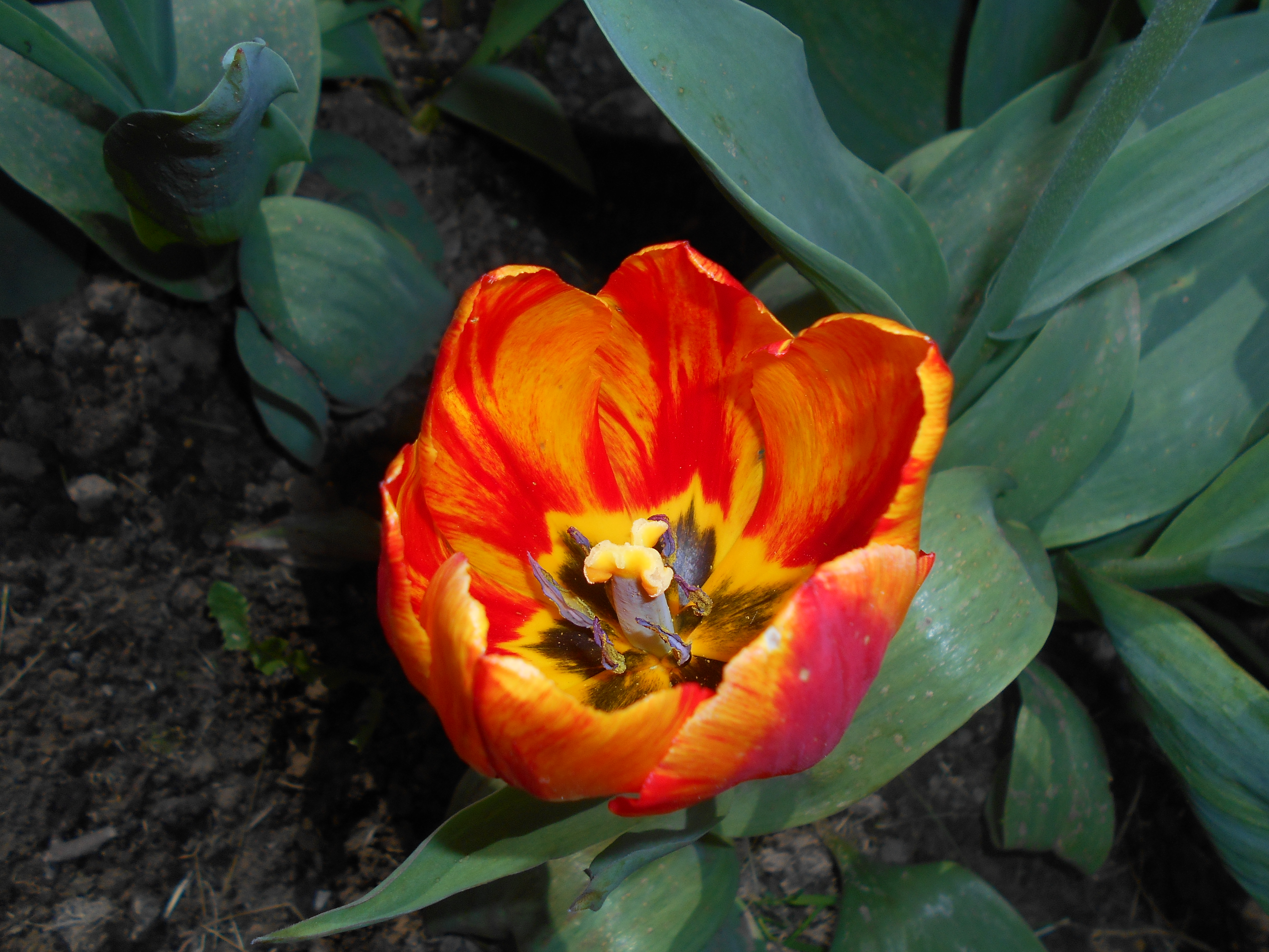 Tulip breaking virus, TBV) as discovered by Dorothy Cayley